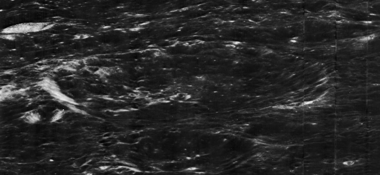 Einthoven, on the far side of the moon, facing west.